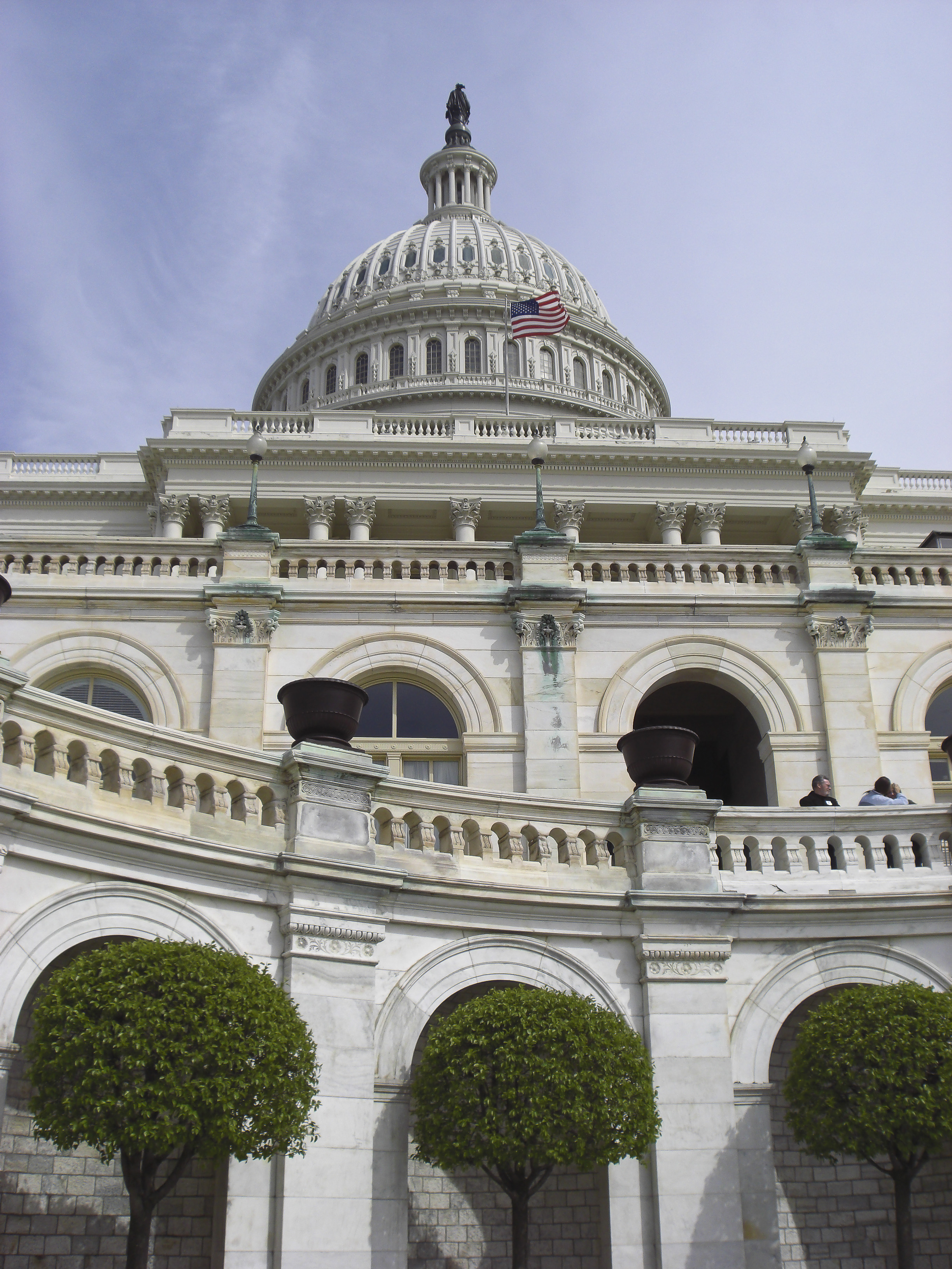 United States Capitol, Washington, D.C., USA